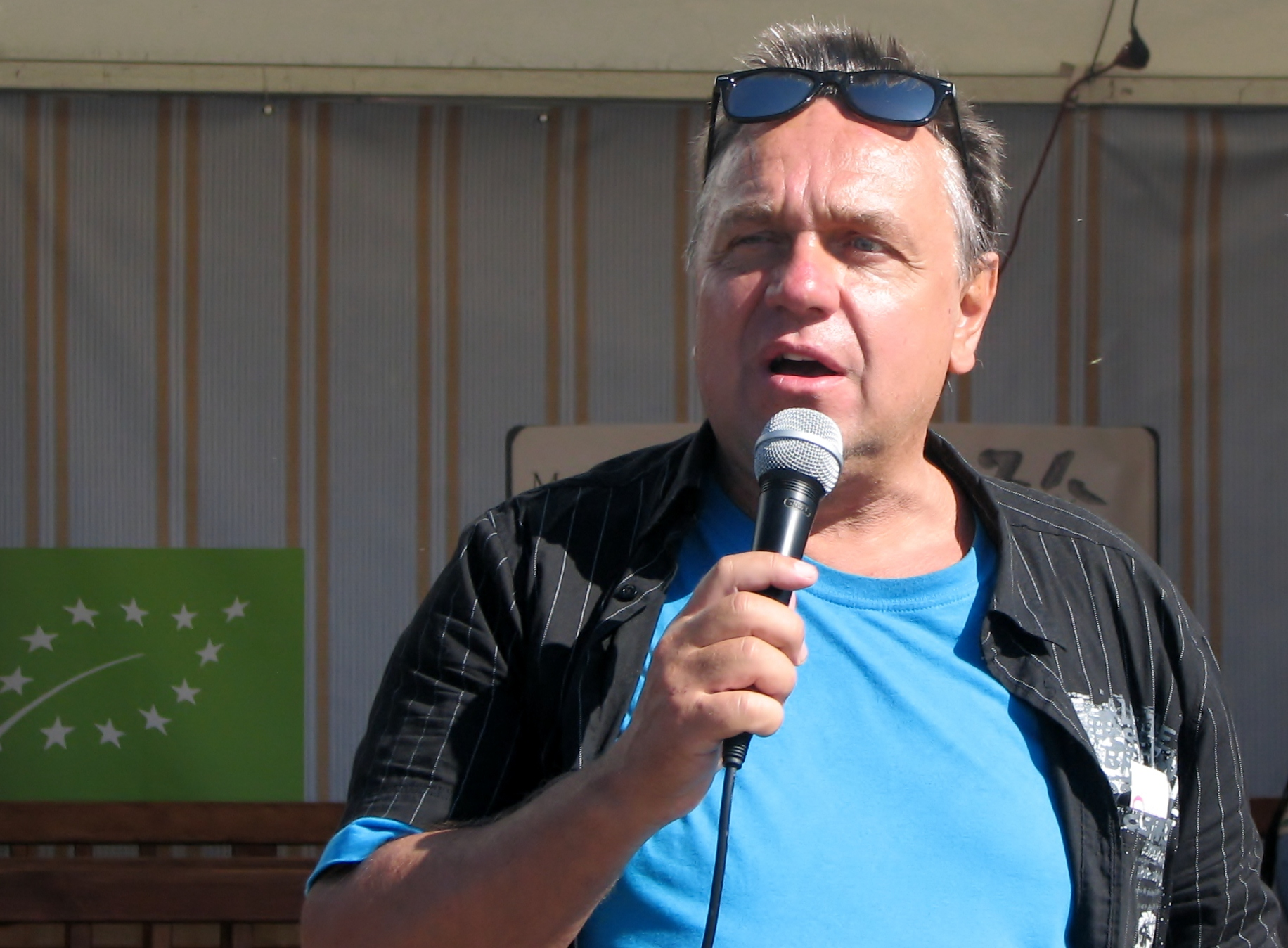 Allan Roosileht performing in Kuressaare Maritime Days